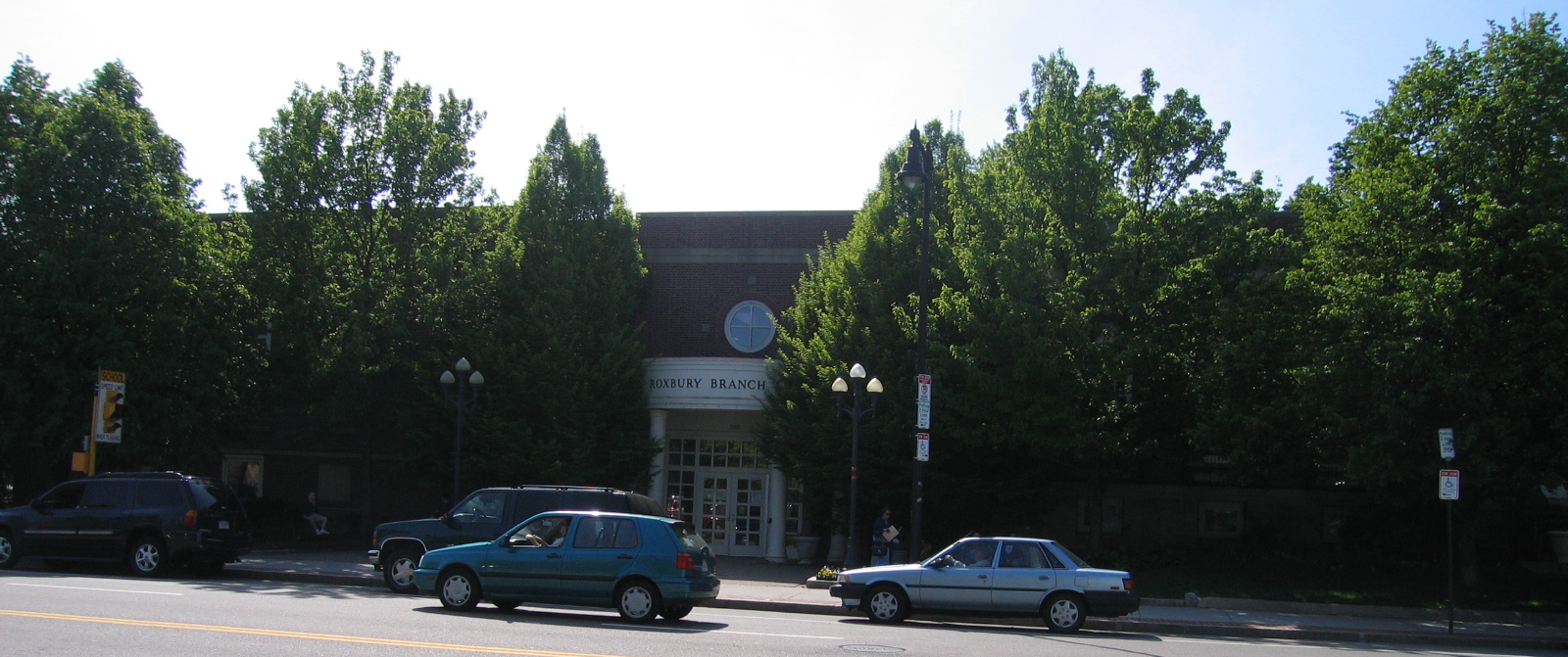 West Roxbury Free Library, 1989 wing in West Roxbury, Massachusetts.